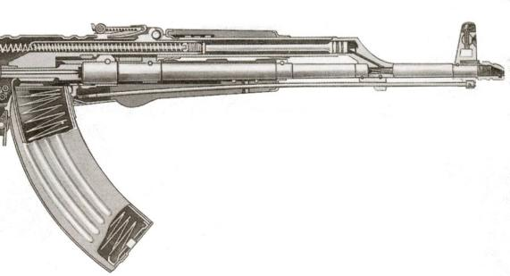 AKM Gas System